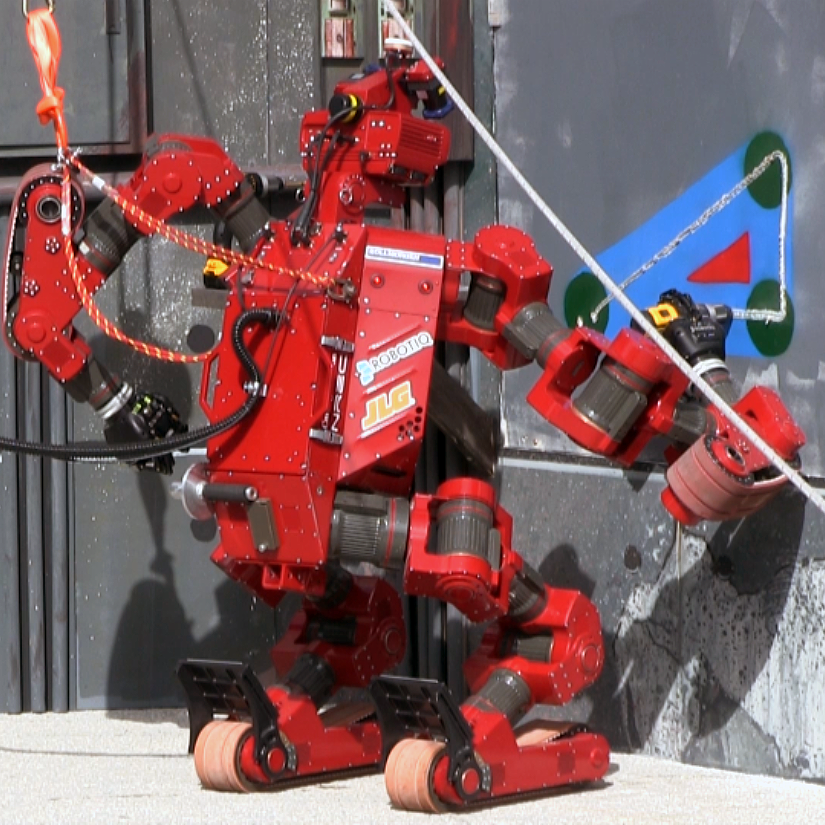 Tartan Rescue's CHIMP robot cuts a triangle out of wallboard at the DARPA Robotics Challenge Trials in December 2013. [National Robotics Engineering Center]